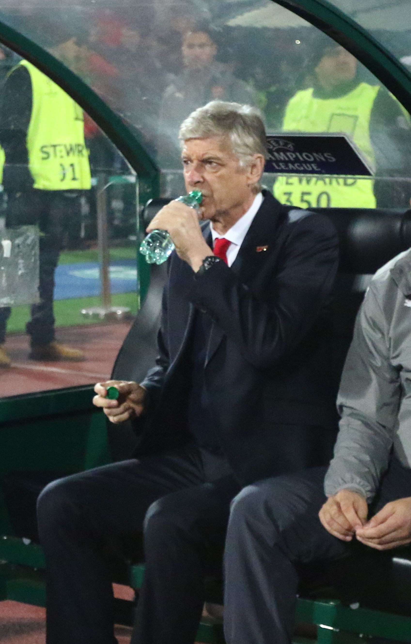 Arsène Wenger - former France football player now coach of Arsenal London